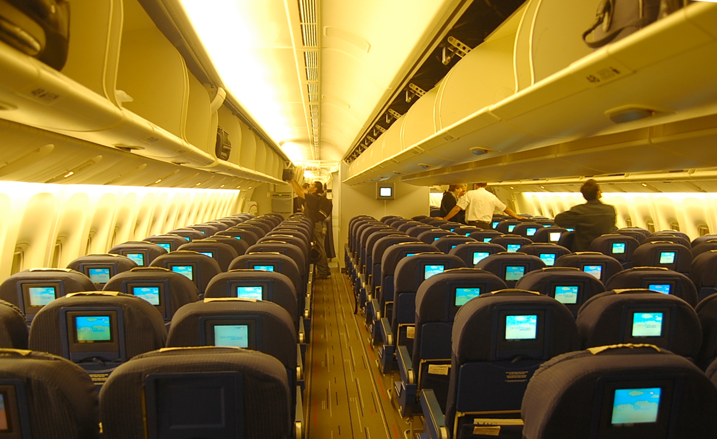 Economy class on a Air France Boeing 777